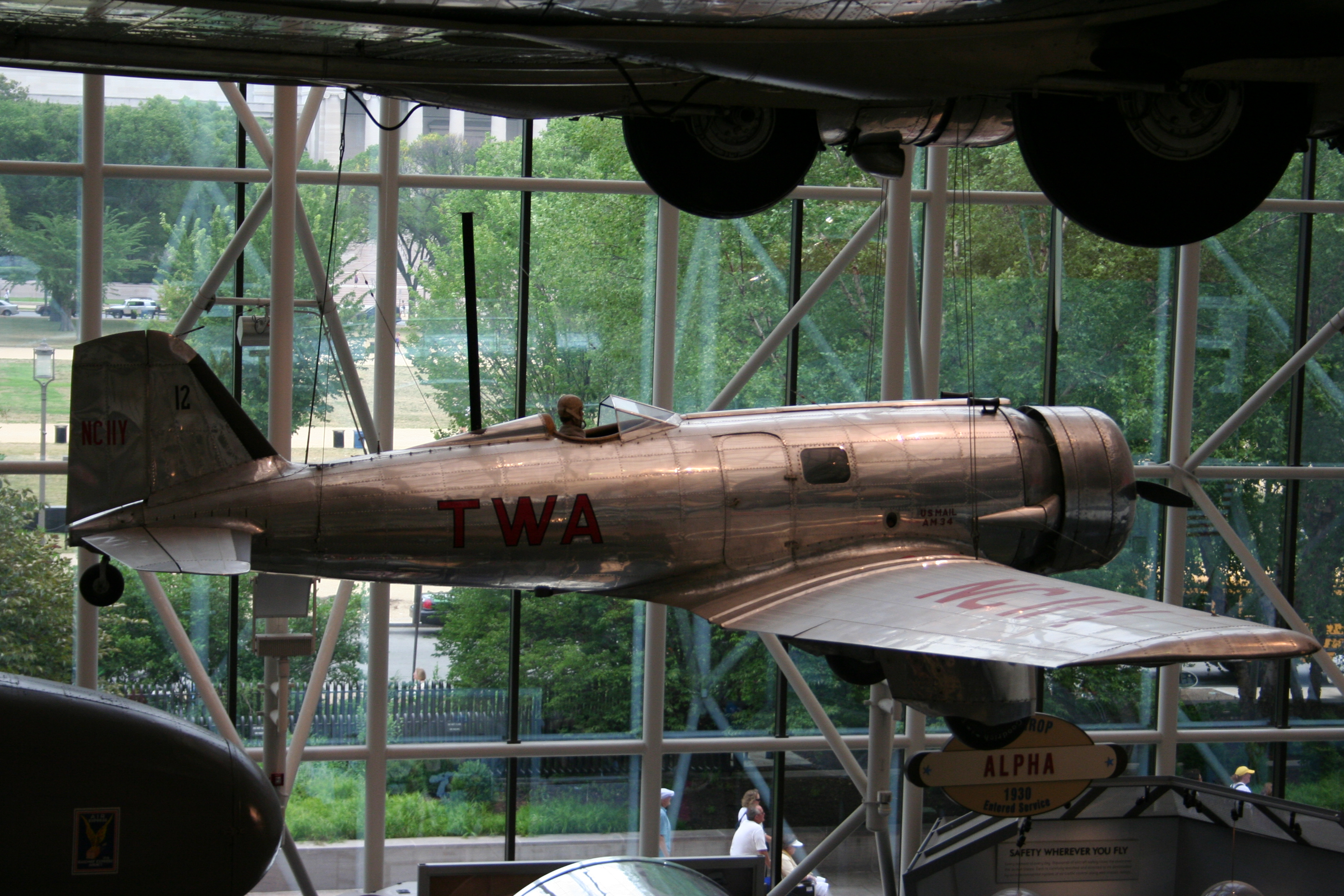 Northrop Alpha, tail number NC11Y, in TWA colors at the National Air and Space Museum.